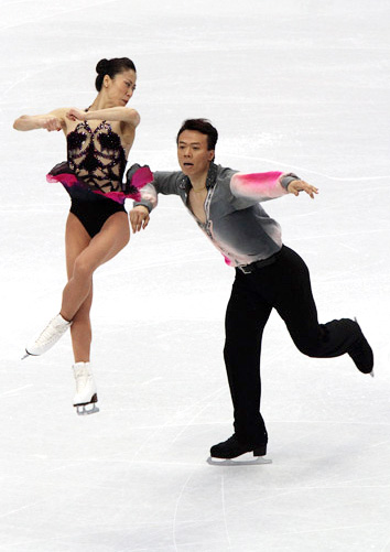 Shen Xue and Zhao Hongbo at the 2010 Winter Olympics (SP).